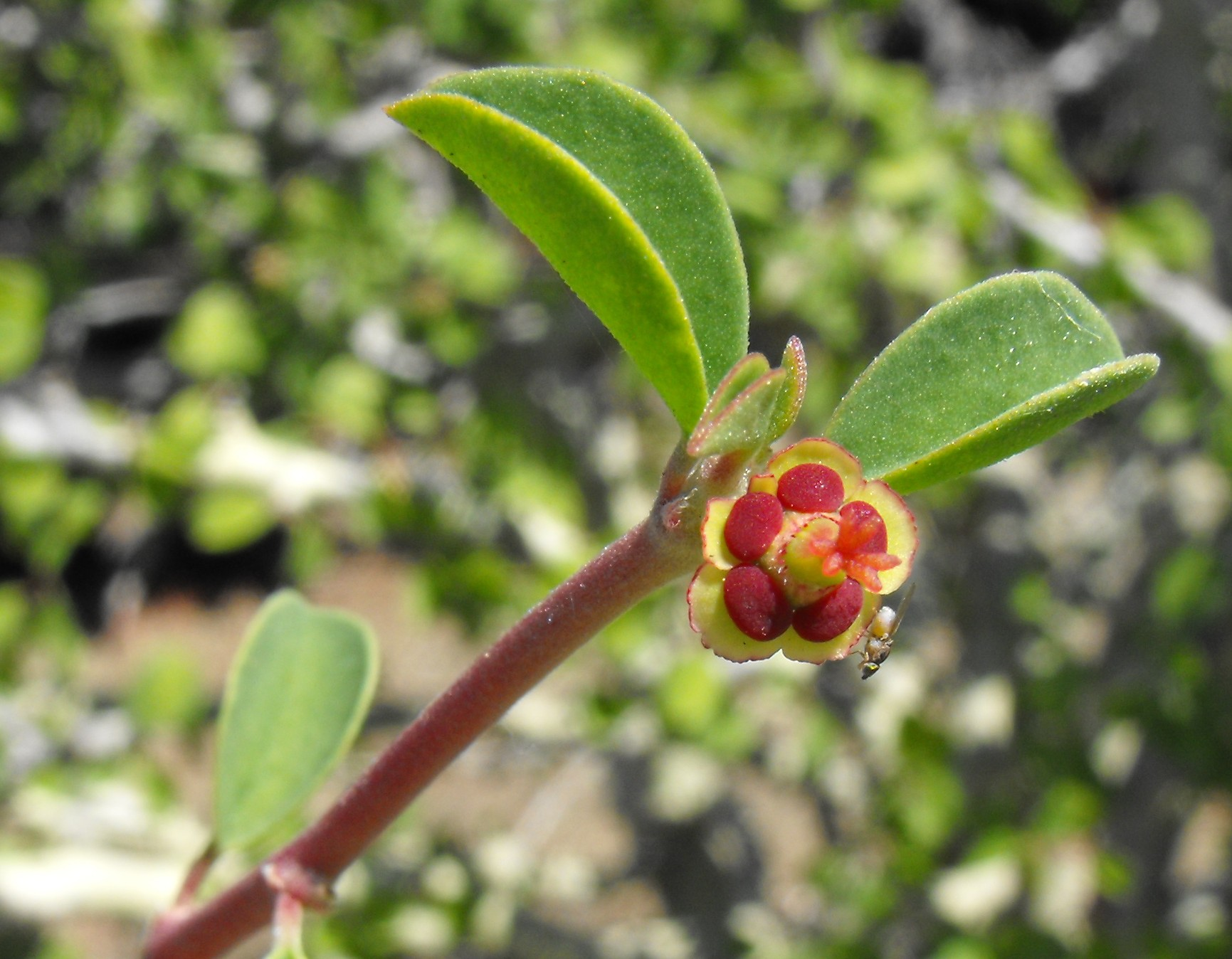 Euphorbia misera in the Whitaker Garden at Torrey Pines State Reserve, San Diego, California, USA. Identified by sign.